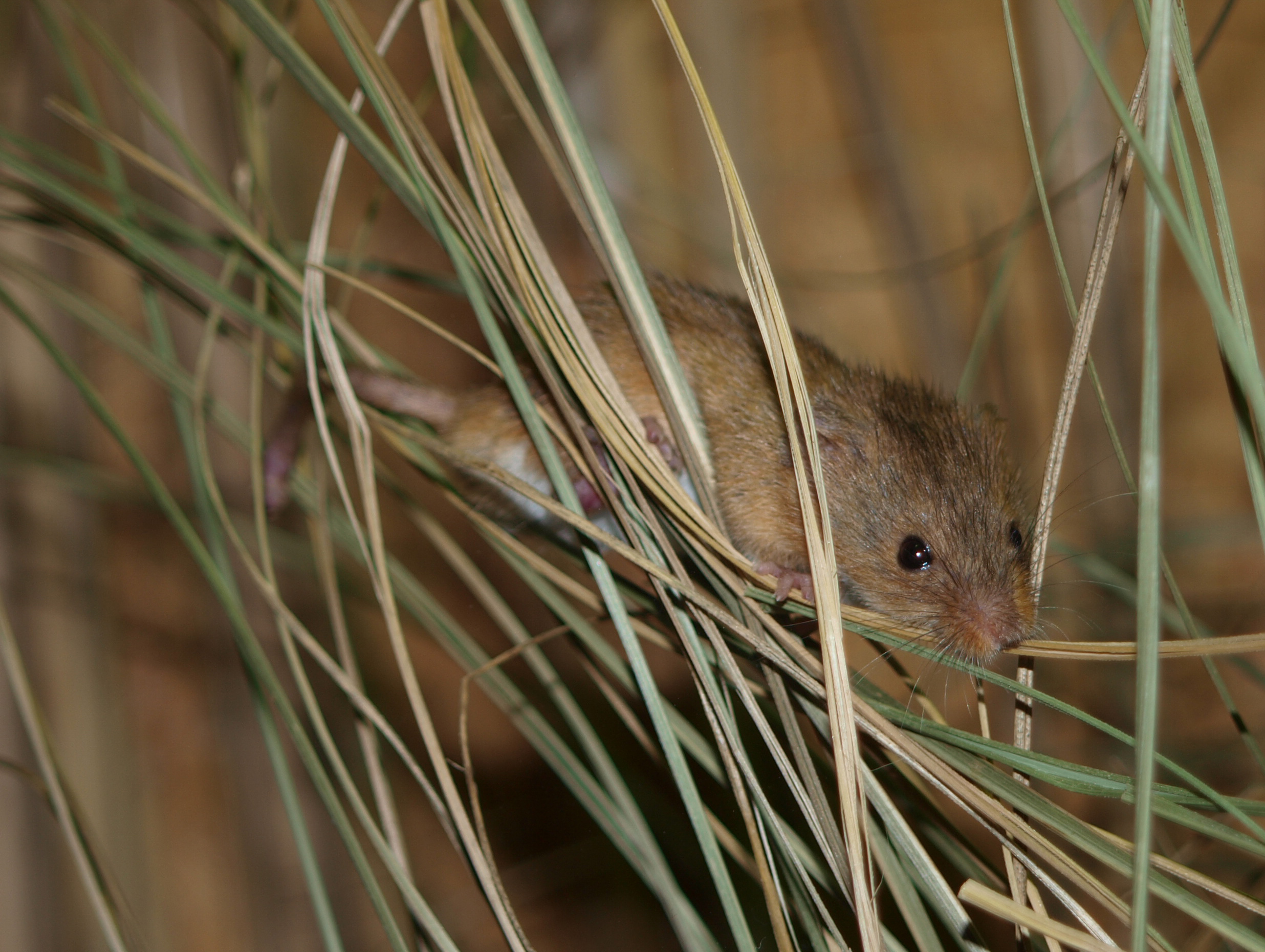 Harvest mouse on grass